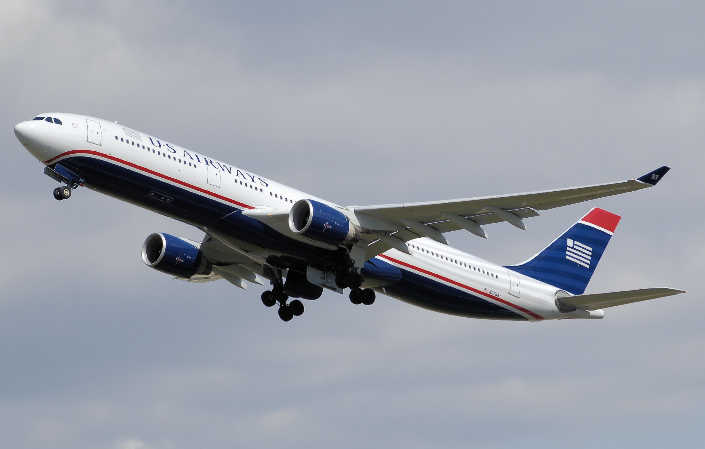 US Airways Airbus A330-323X (N278AY), on final approach to London Heathrow Airport, England.